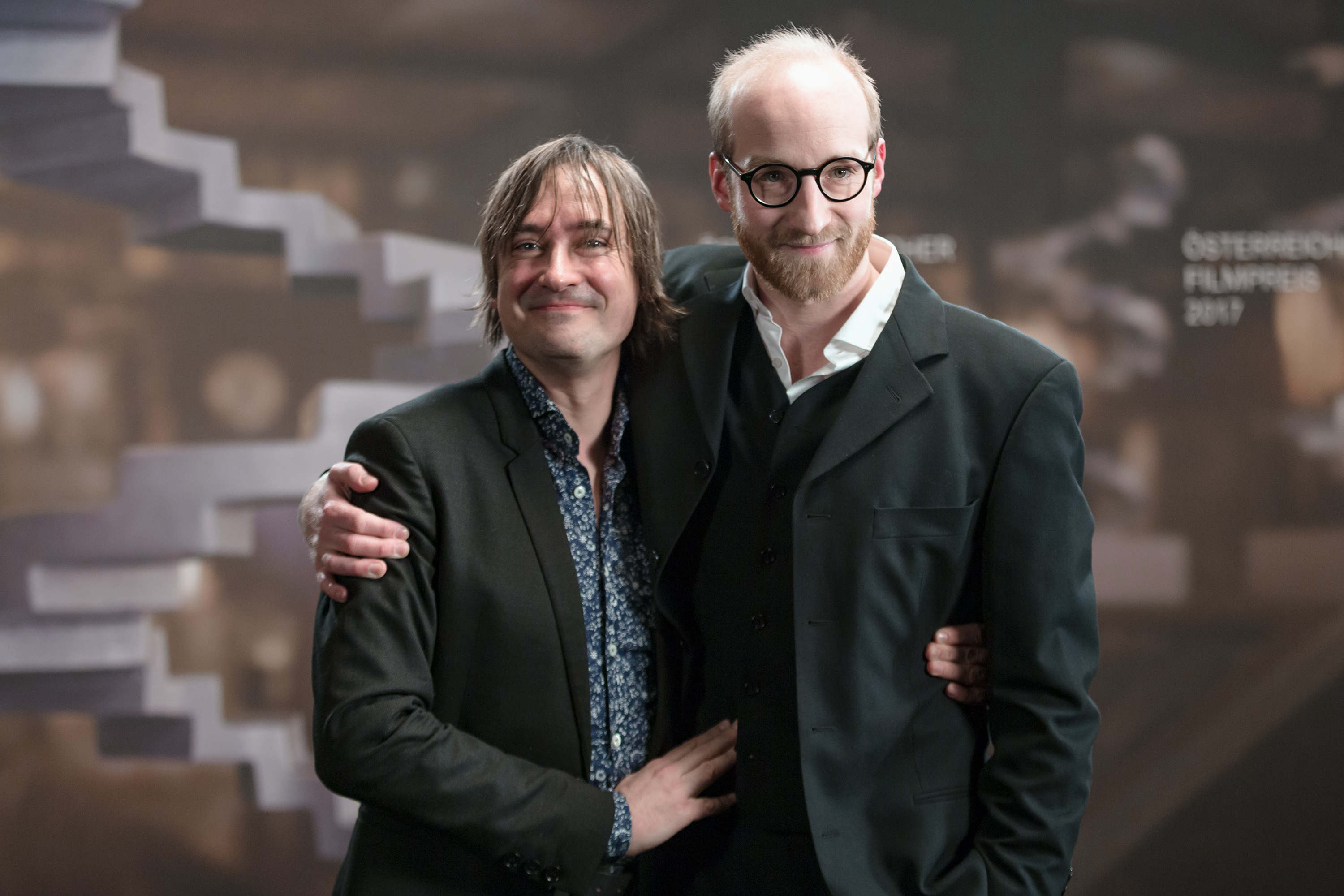 Director and writer Klaus Händl and actor Lukas Turtur (Tomcat) at the Austrian Film Awards 2017 (Rathaus, Vienna,Austria).